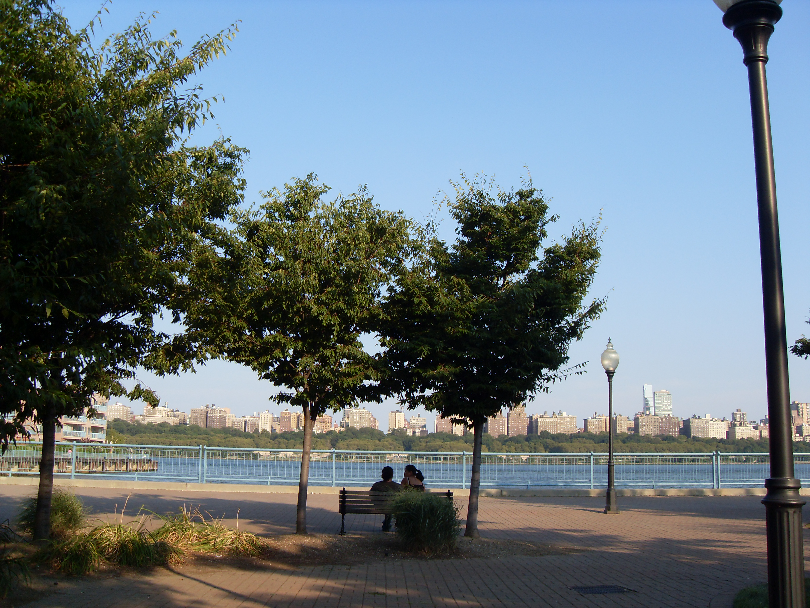 Edgewater apartment park along the Hudson. Used in the article Edgewater, NJ